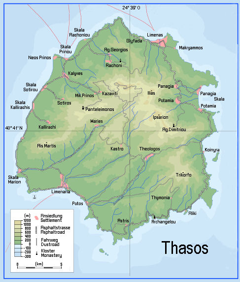 Topographic map of Thasos island